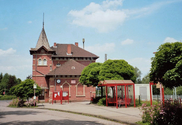 Bahnhof Friedland (Han), Straßenseite - Railway station Friedland (Han), Germany, front view